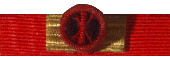 21-OrdenLegionHonorFrancia